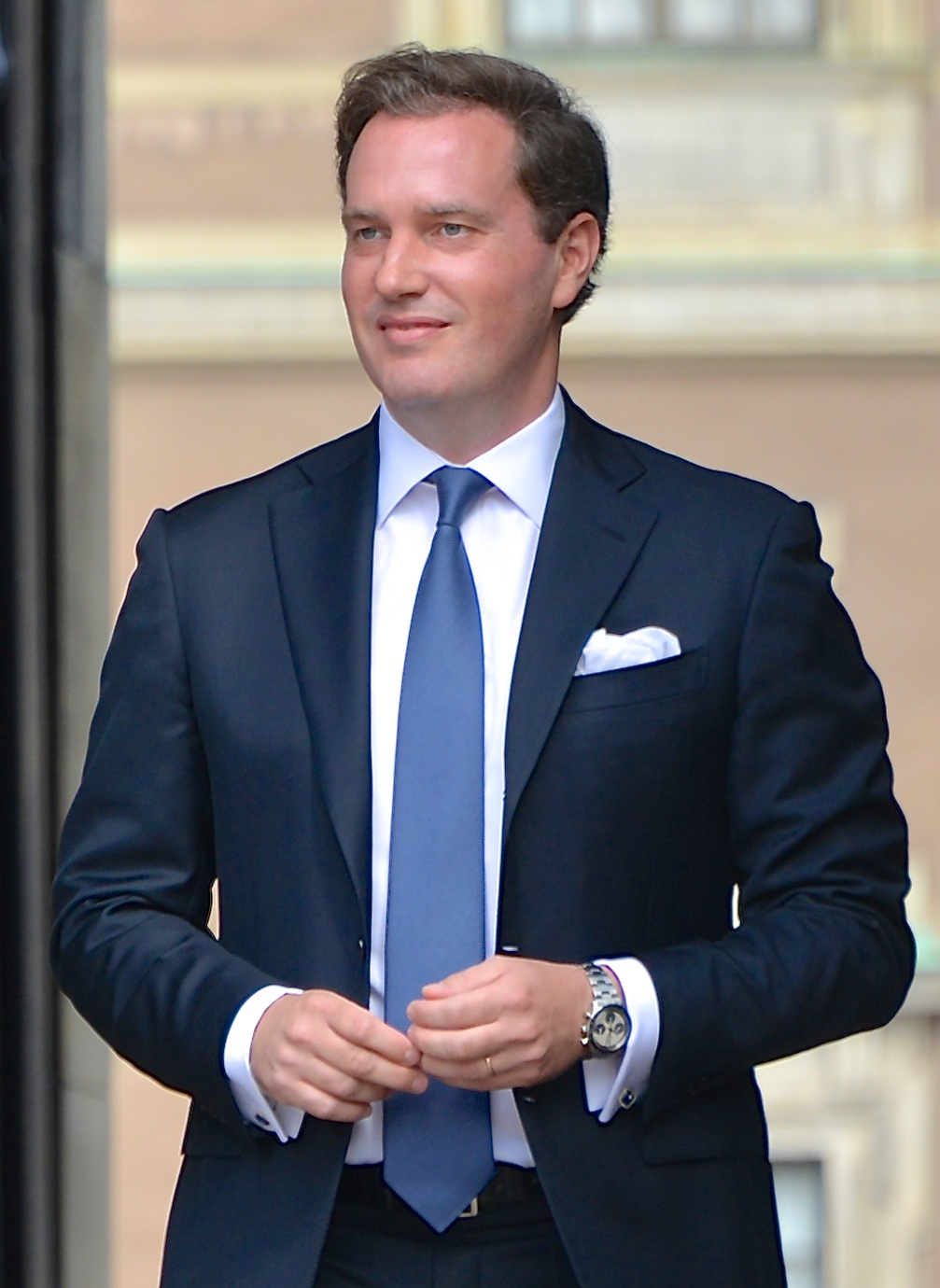 Christopher O’Neill on Sweden´s National Day 2014.